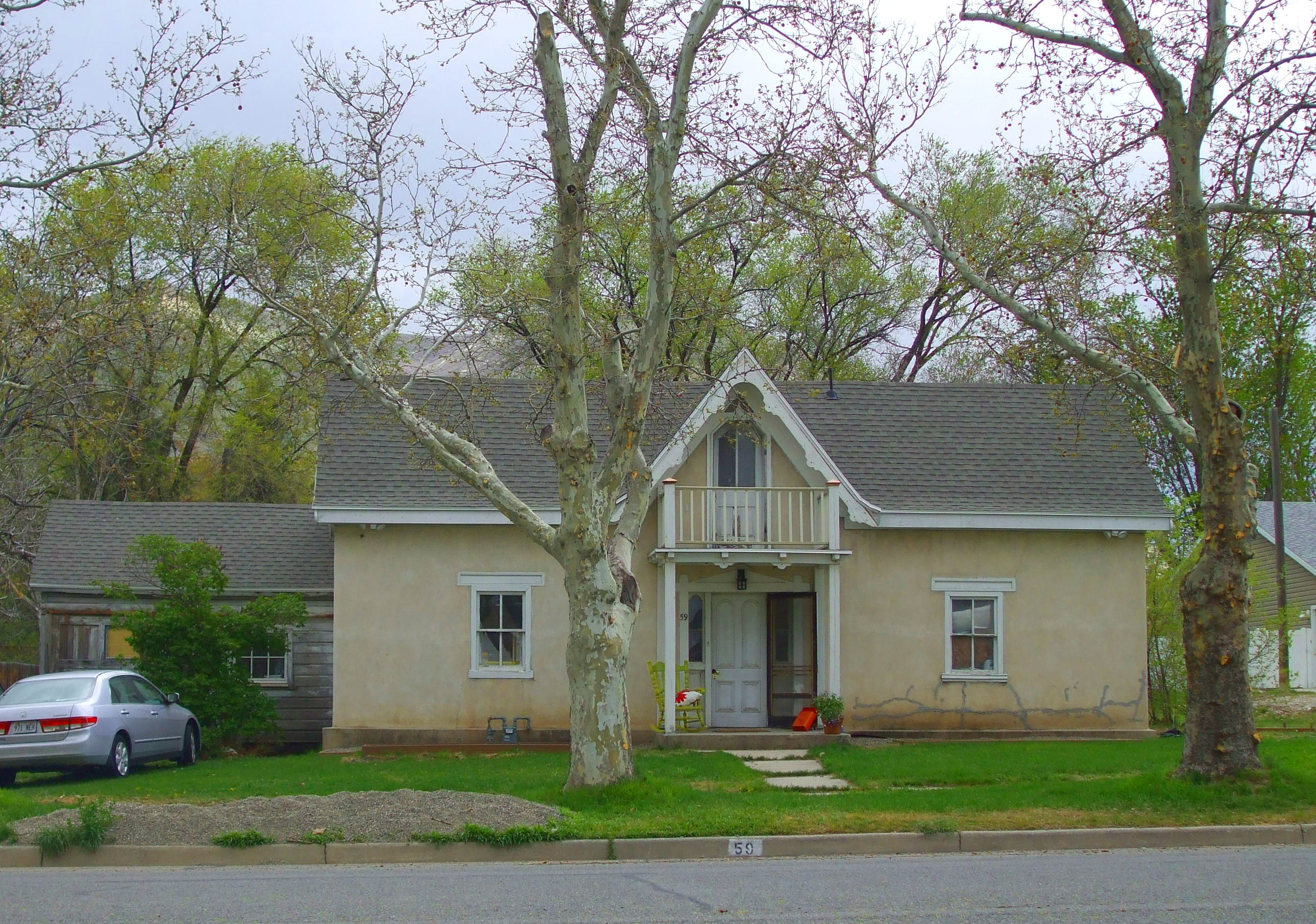 The Peter and Anna Christena Forsgren House, a historic home in Brigham City, Utah, United States.